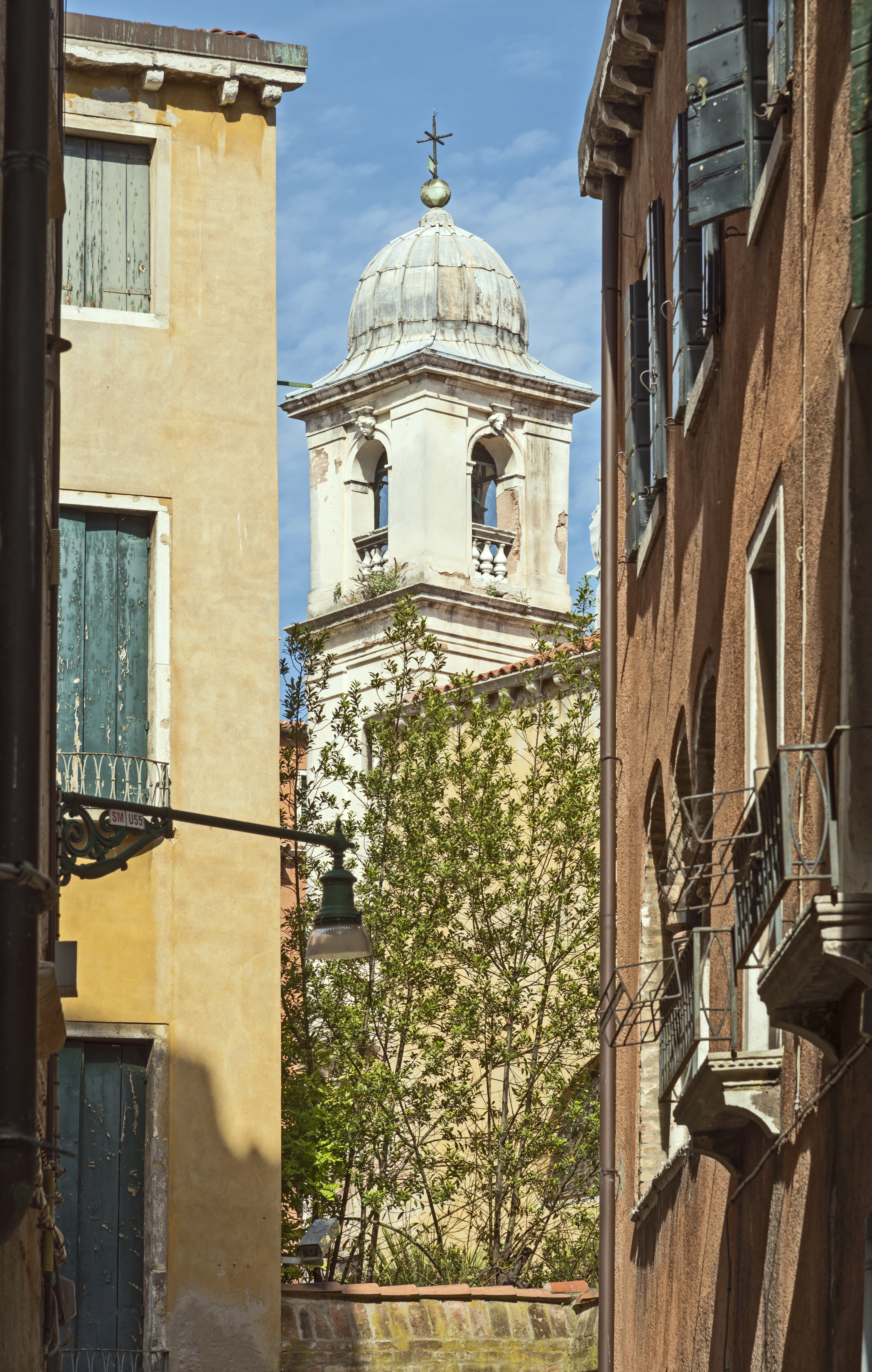 Church Santa Croce degli Armeni, Venice, bell tower.